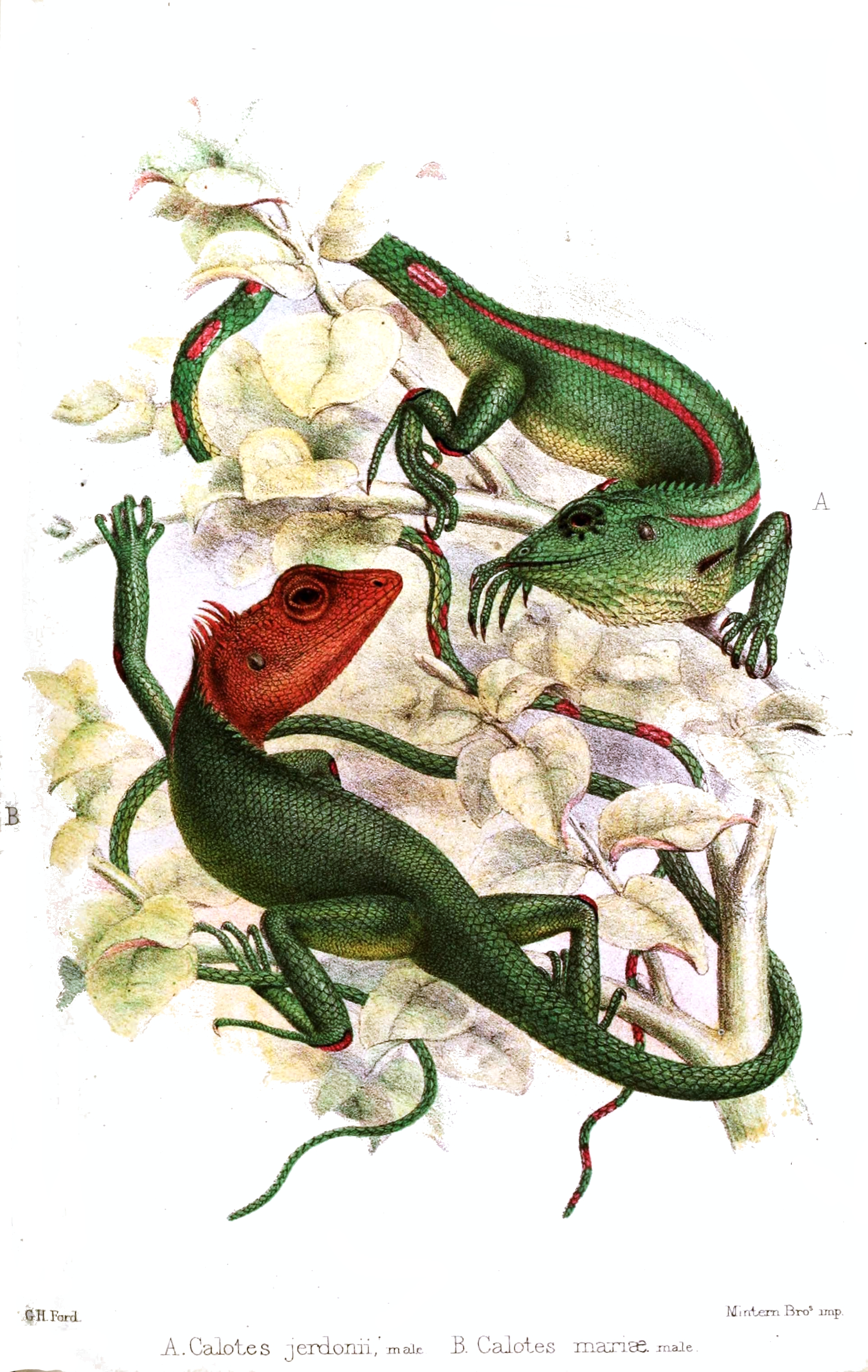 Jerdon's Forest Lizard , adult male (above); Khasi Hills Forest Lizard , adult male (below)